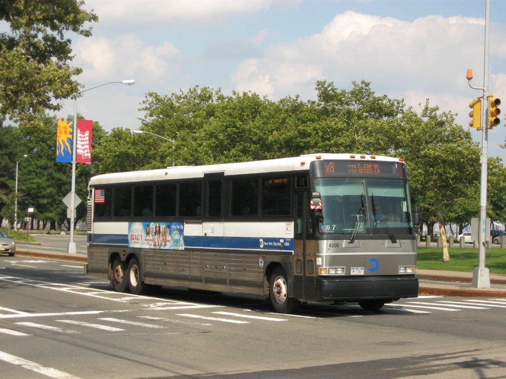 MTA New York City Bus #4306 operates through Midland Beach on the X8 in Staten Island.